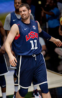 NBA player Kevin Love